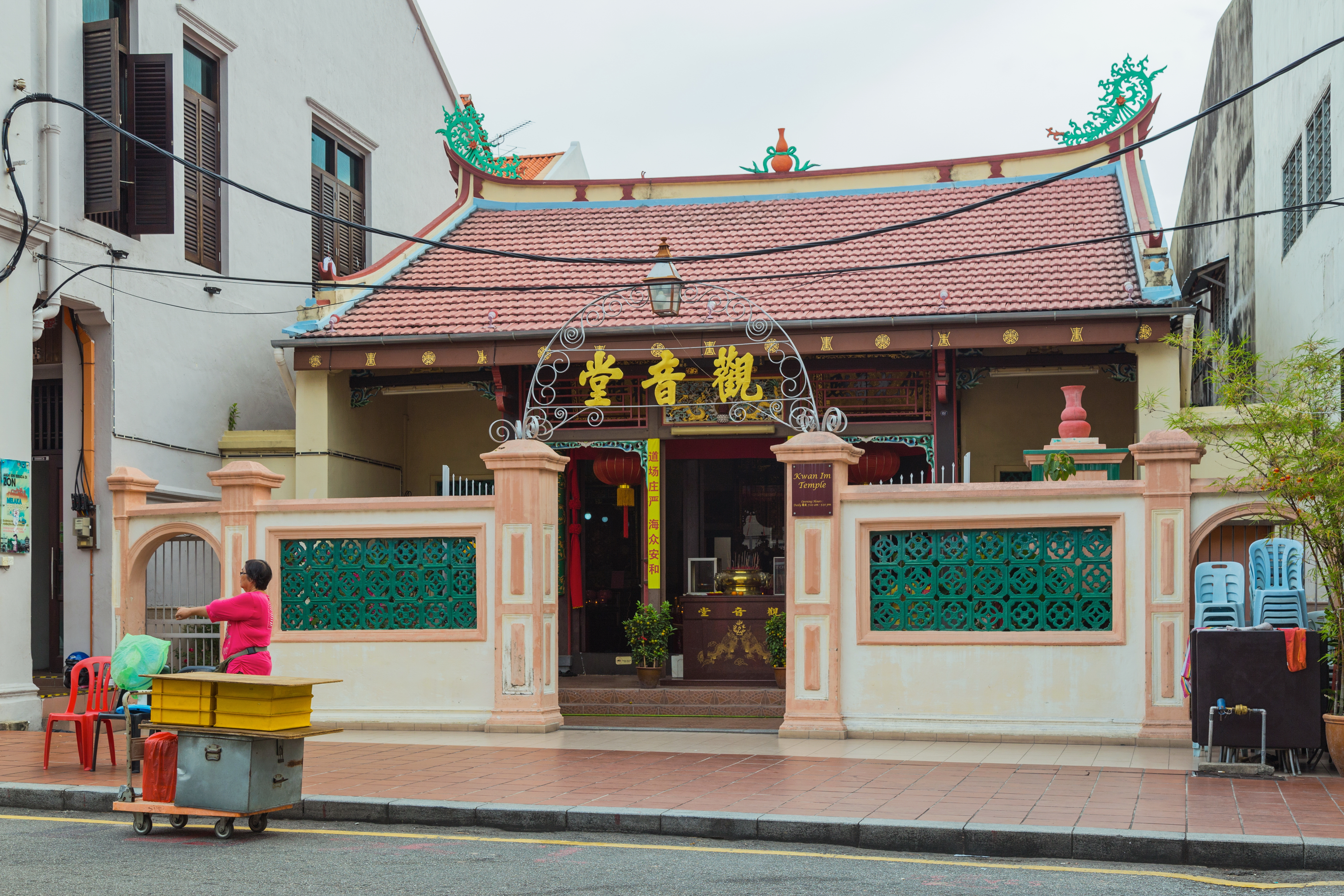 Kwan Im Temple. Malacca City, Malacca, Malaysia.